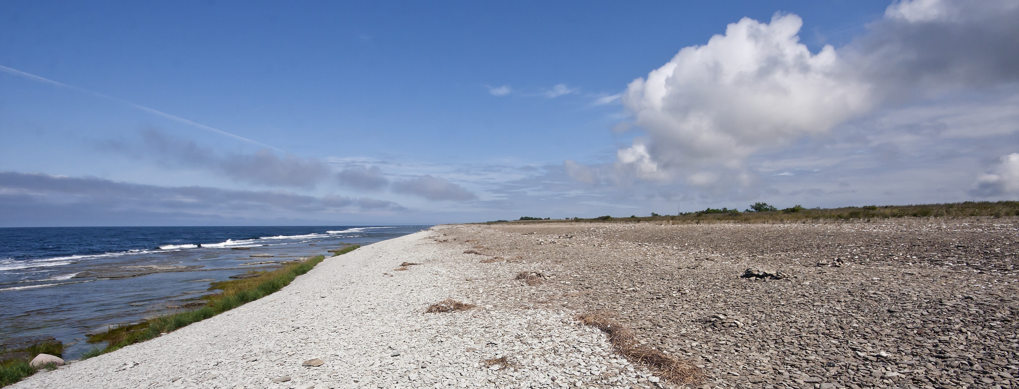 The Neptuni åkrar cobble beach in northern Öland, Sweden.